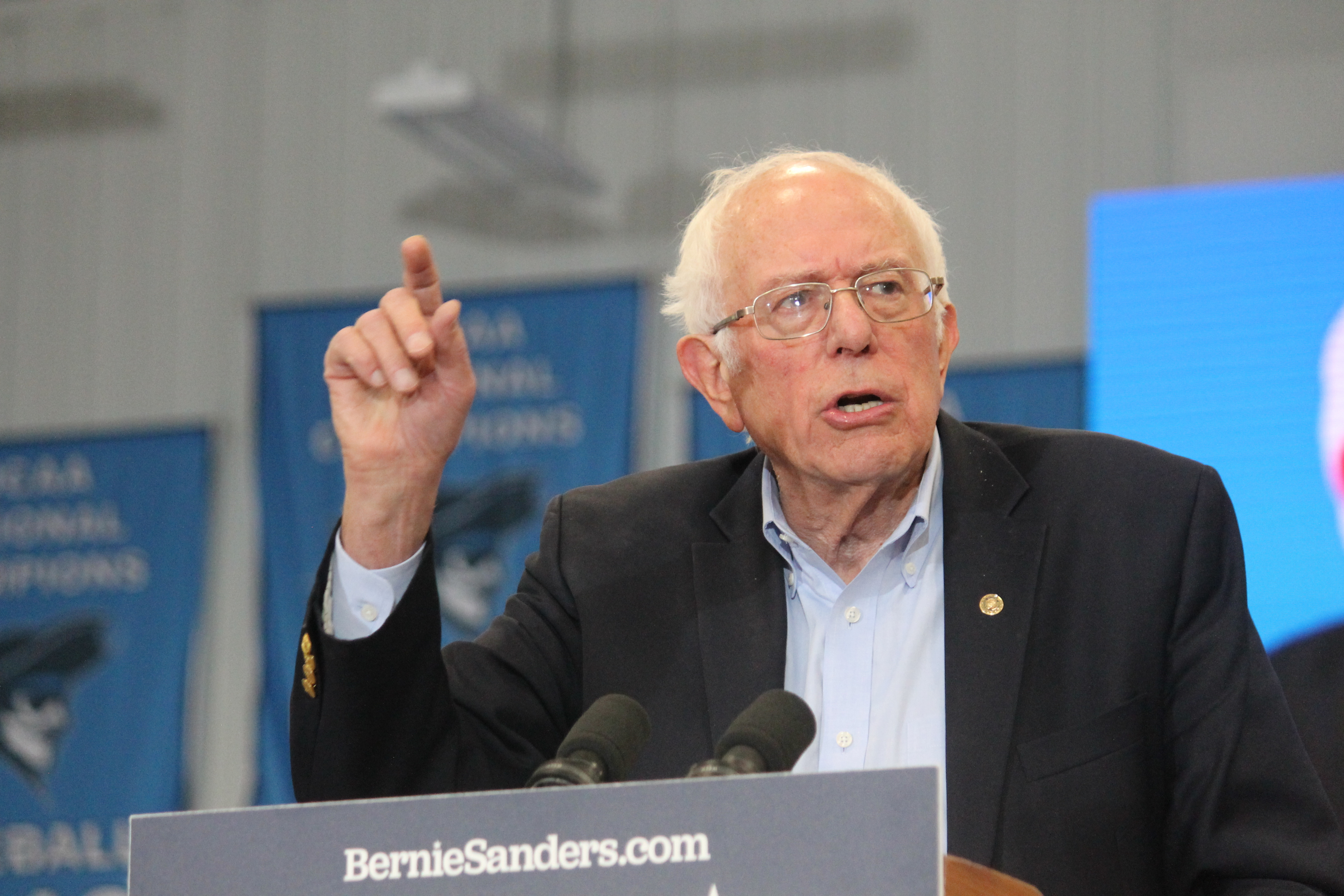 Bernie Sanders speaking to rally attendees in Council Bluffs, Iowa. Please credit Matt A.J. if used elsewhere.